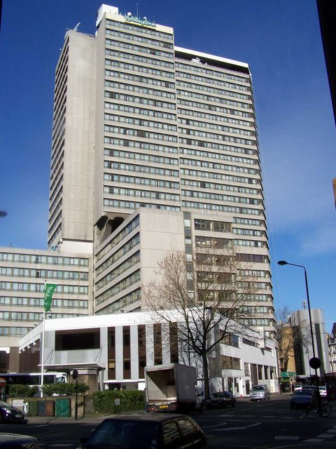 Holiday Inn, Cromwell Road One of two Holiday Inns opposite each other.